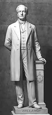 Jacob Collamer given by Vermont to the National Statuary Hall Collection.